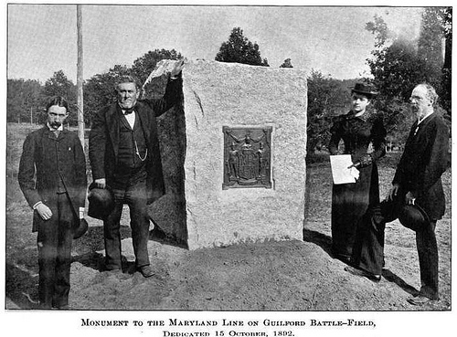 Monument to the Maryland Line on Guilford Battle-Field, Dedicated 15 October, 1892. Photograph of the unveiling of the monument erected to the members of the Maryland line at the Battle of Guilford Courthouse, erected and dedicated by members of the Maryland Historical Society. Retouched by MarmadukePercy